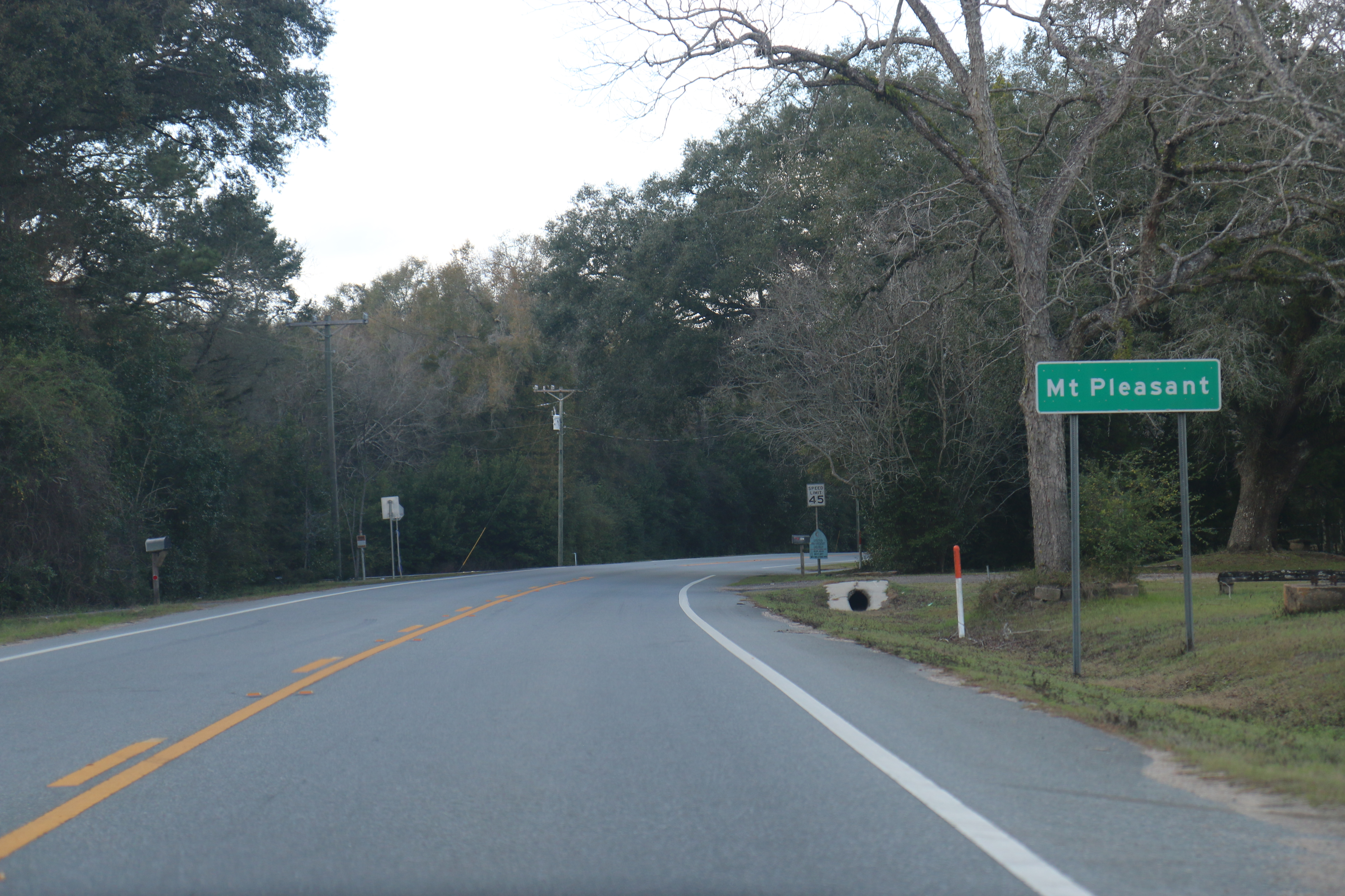 The sign for Mount Pleasant, Florida on U.S. Route 90.